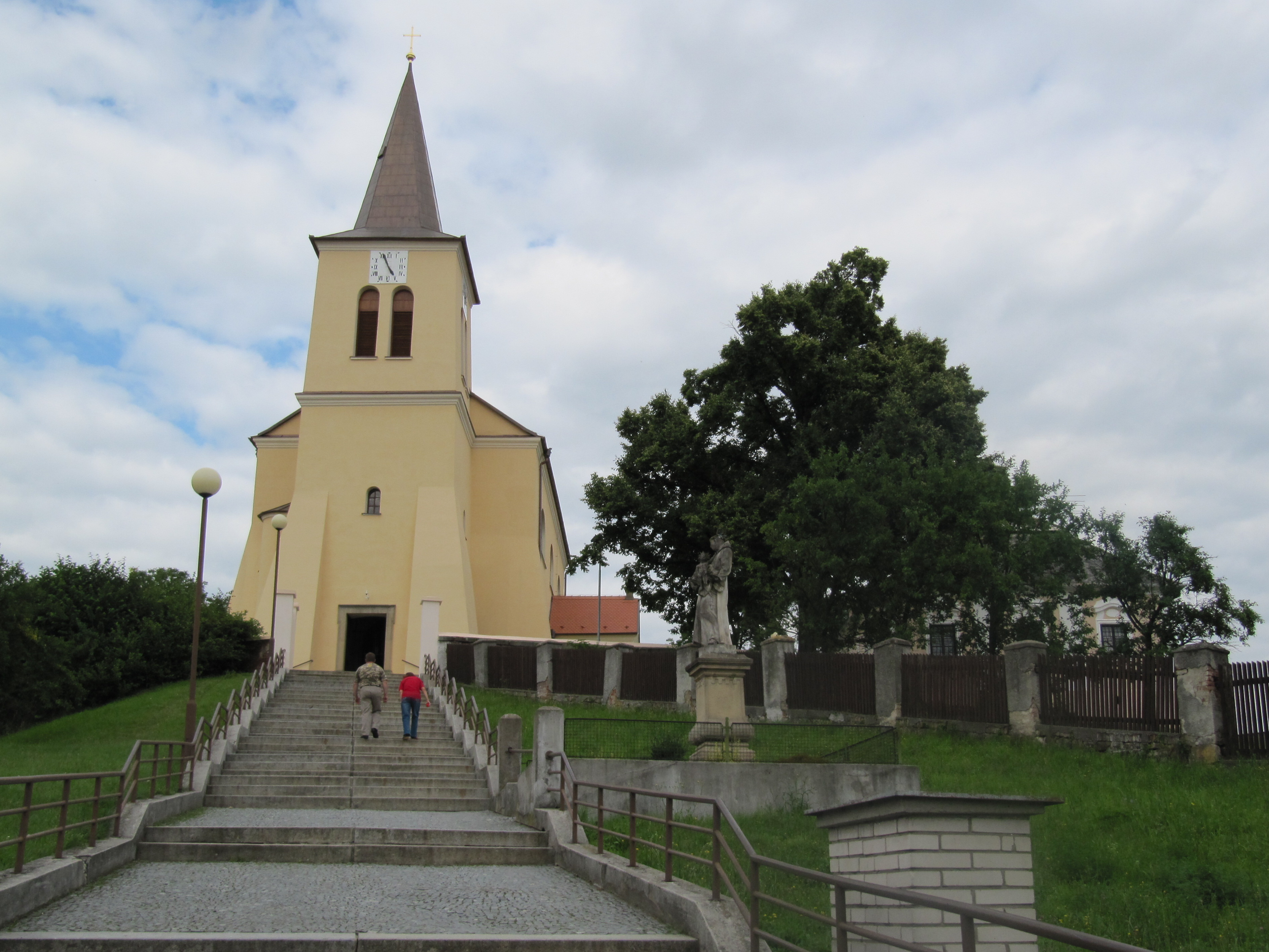 Boršice in Uherské Hradiště District, Czech Republic. Church of St. Wenceslas.